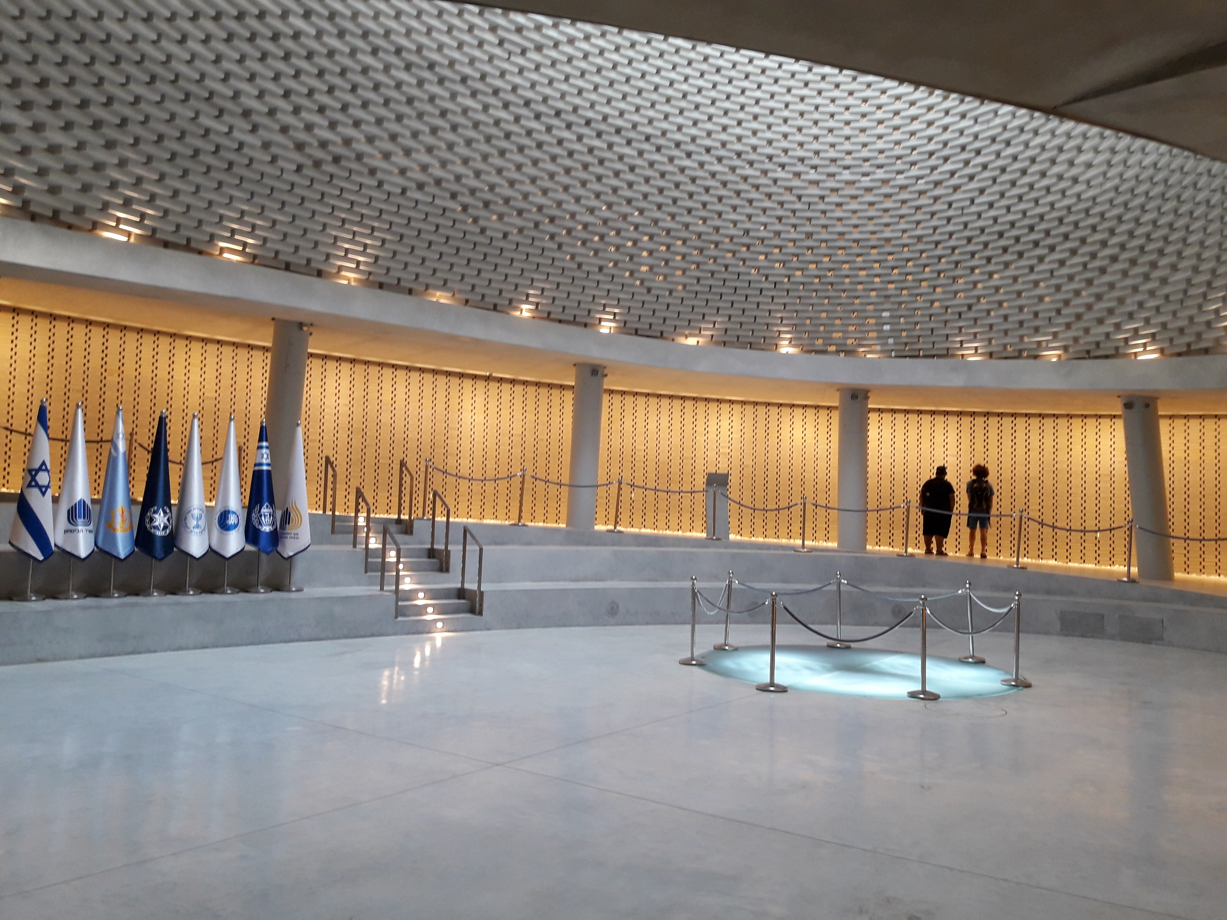 Mount Herzl Military Cemetery - National Memorial Hall